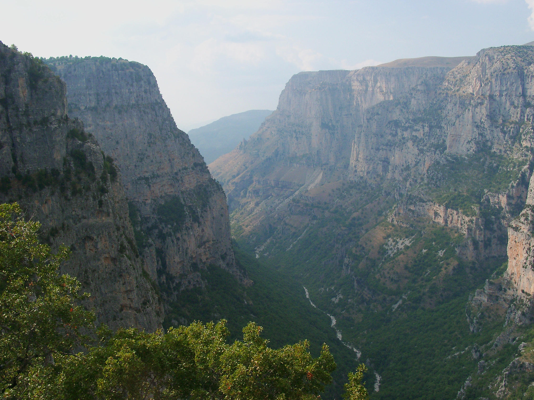 Vikos Gorge.